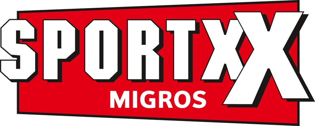 this is a migros brand 11